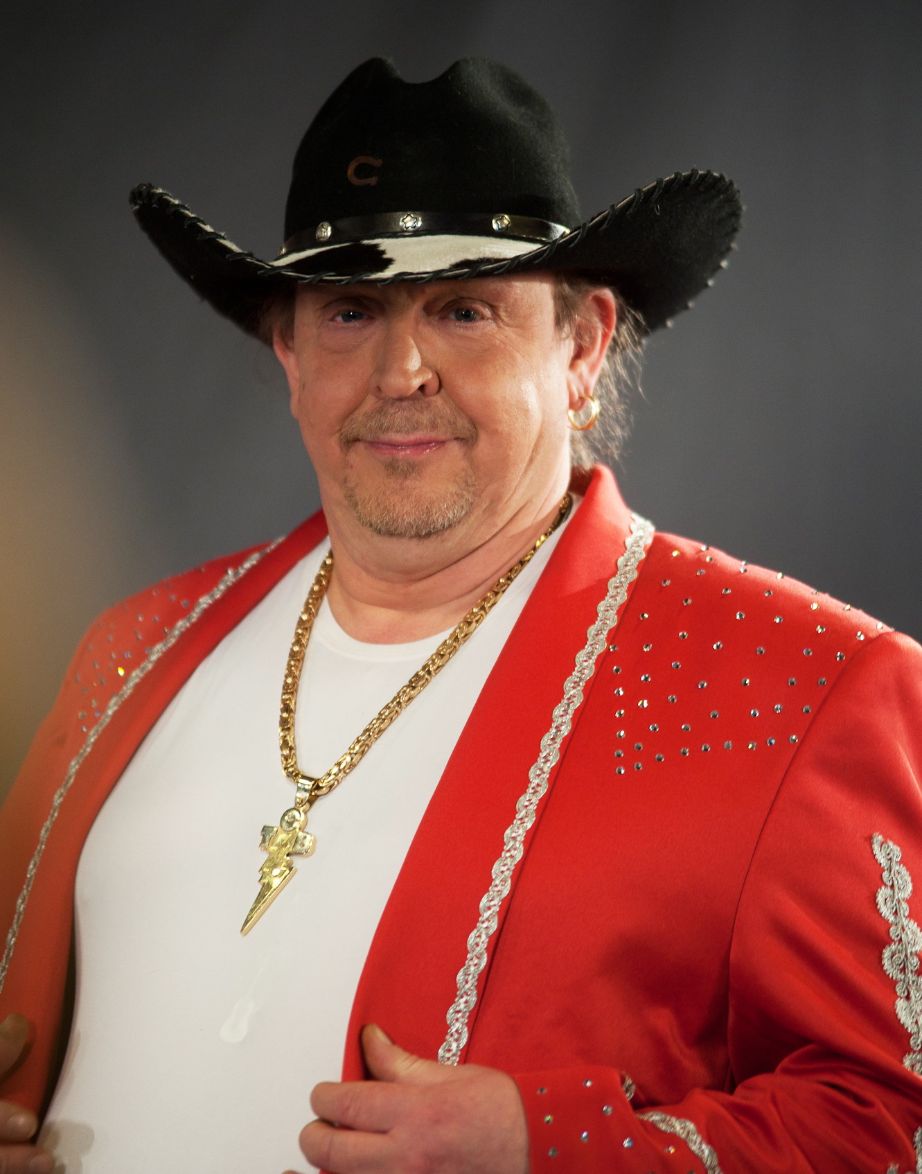 Olle Jönsson of Lasse Stefanz 2010 at a press conference for Melodifestivalen 2011